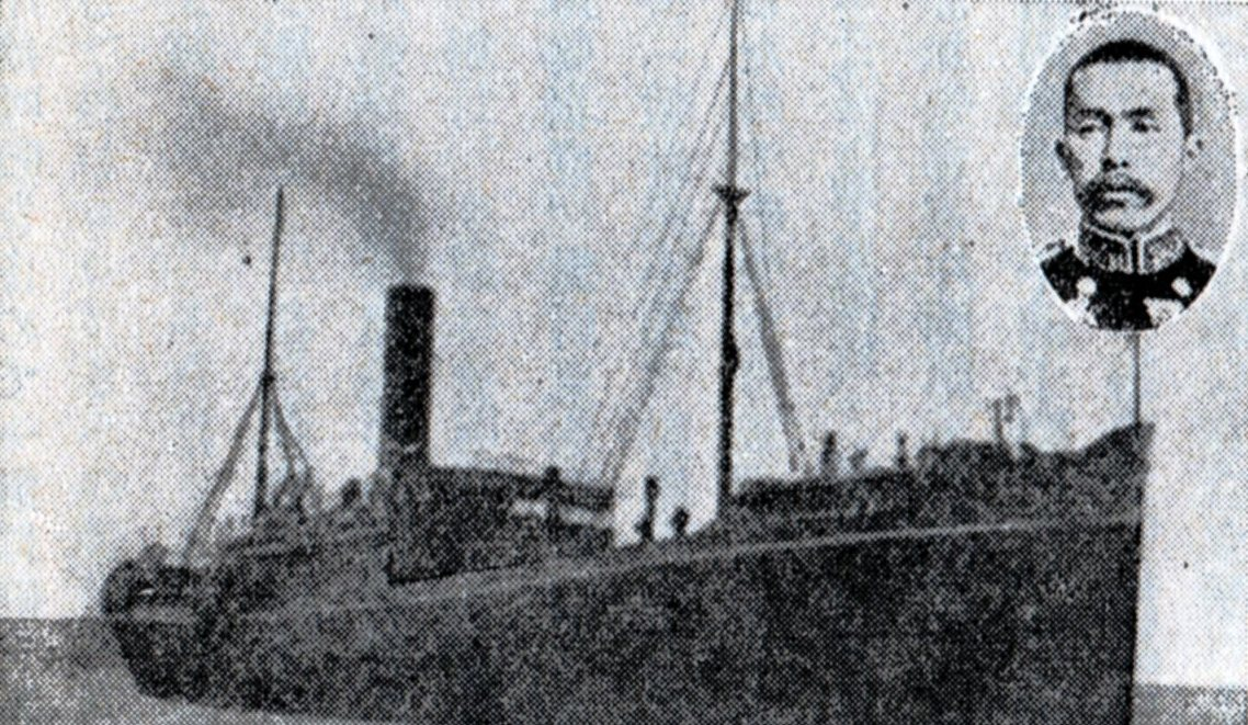 Shinano-maru and Captain Narukwa